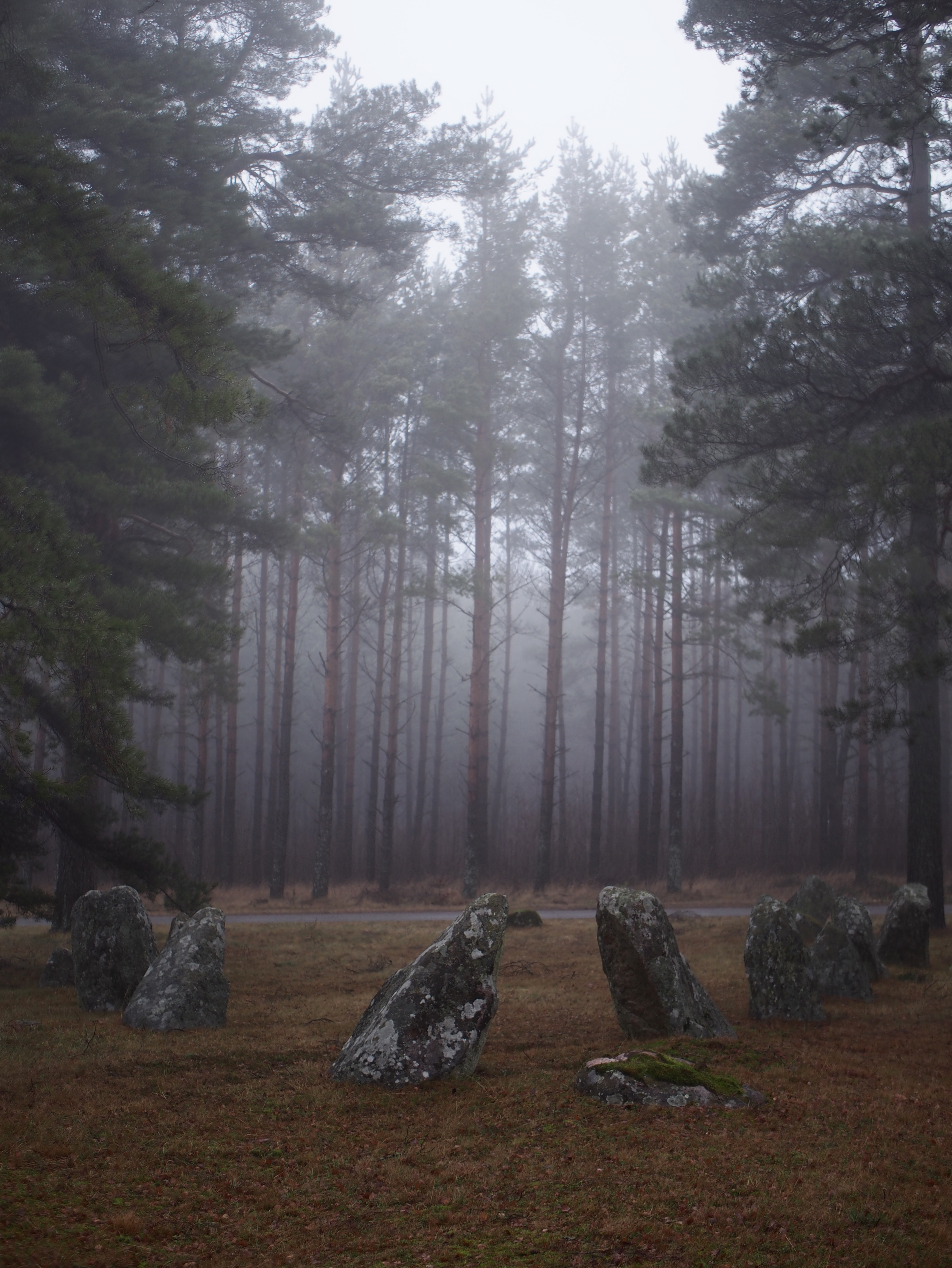 The remains of a stone ship at the Brakelund burial ground, Lidköping municipality.